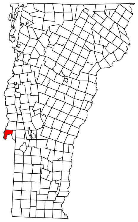 Map of Vermont towns with West Haven highlighted.